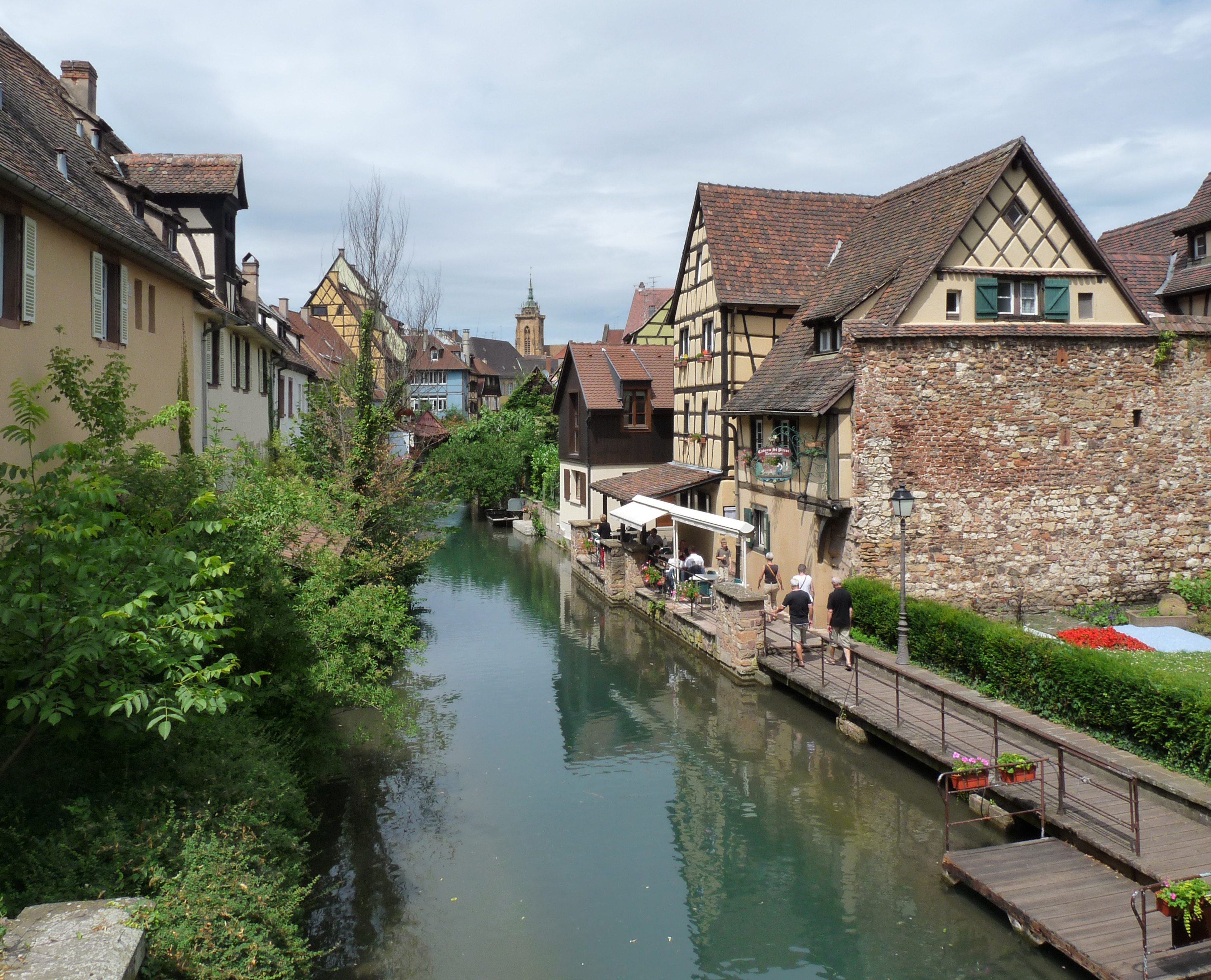 The little Venice in Colmar (Haut-Rhin, France).